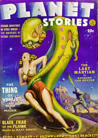 Cover of Planet Stories, Spring 1942